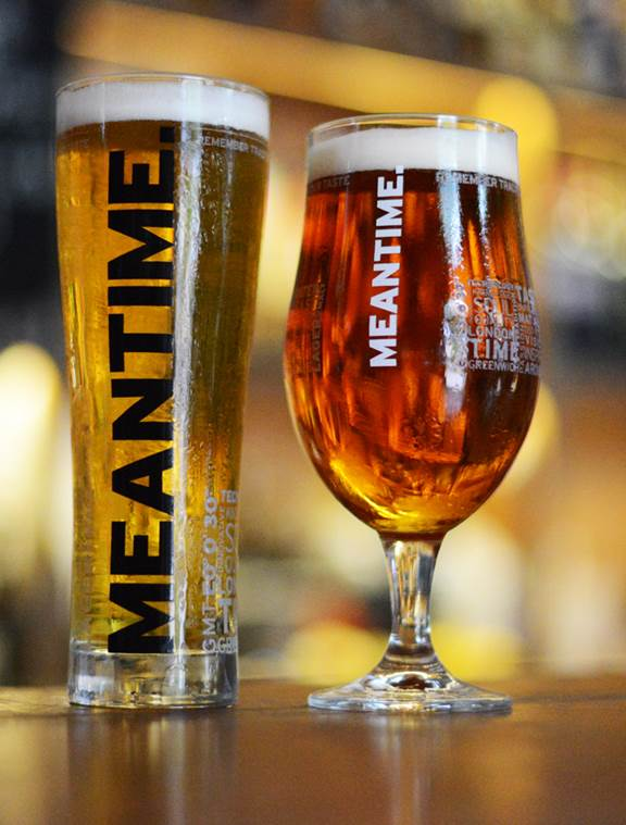 Pints of Meantime